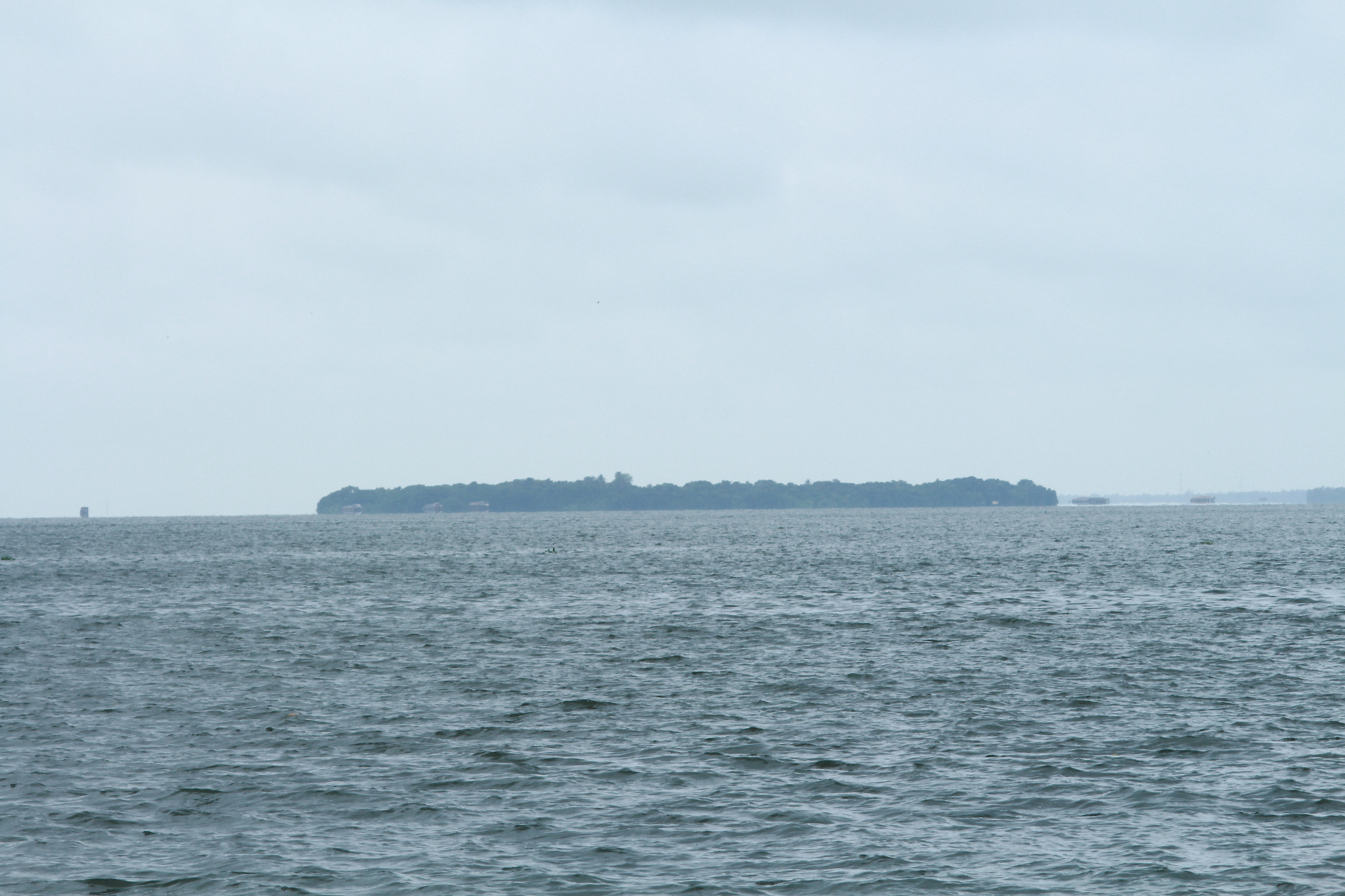 Pathiramanal is a small island in Muhamma panchayat of Alappuzha district. The name Pathiramanal means 'sands of night'. The scenic beauty of both sides of the lake as well as that of the island is mind blowing. It is home to many rare varieties of migratory birds from different parts of the world.